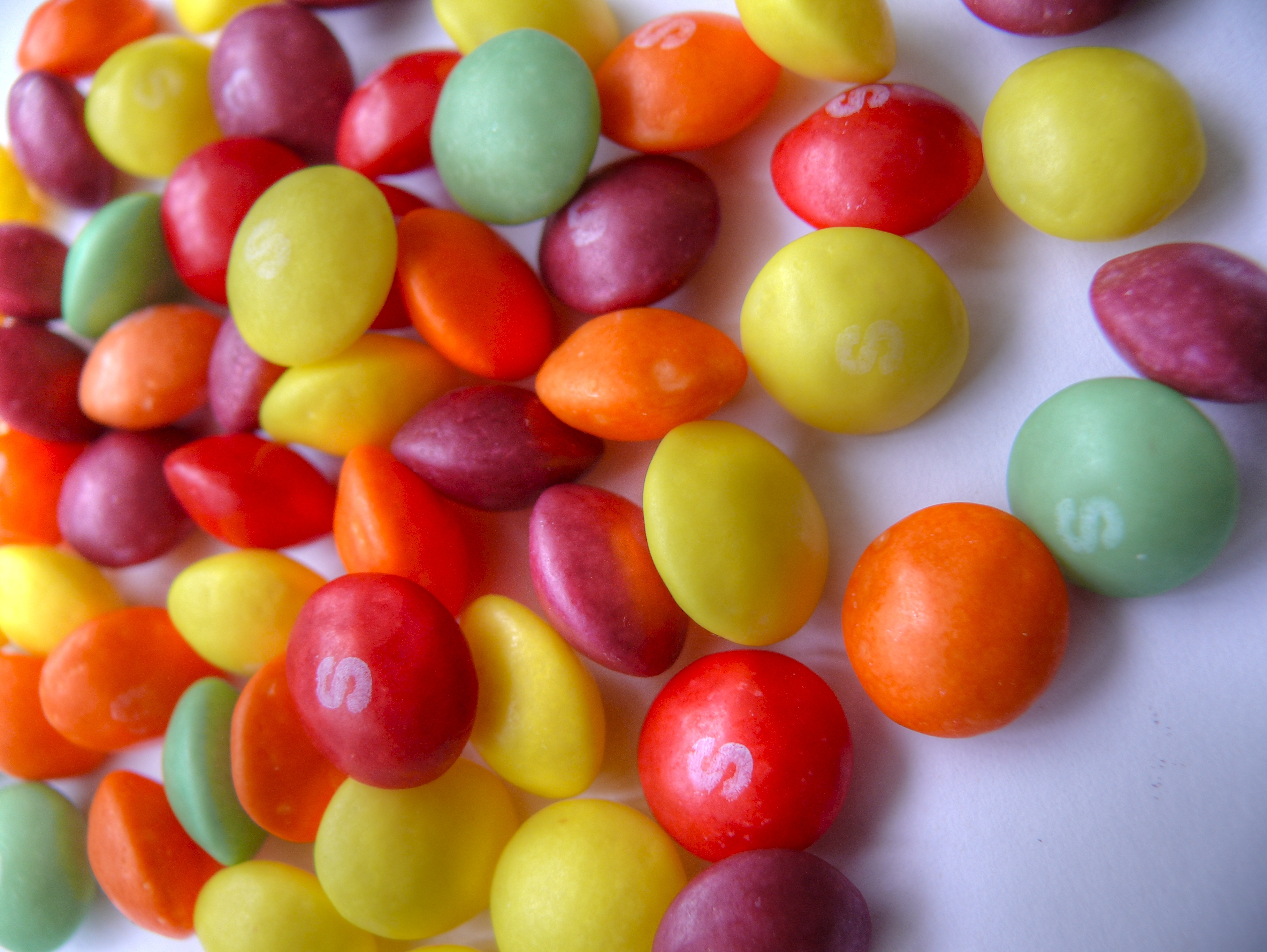 HDR image of Skittles.